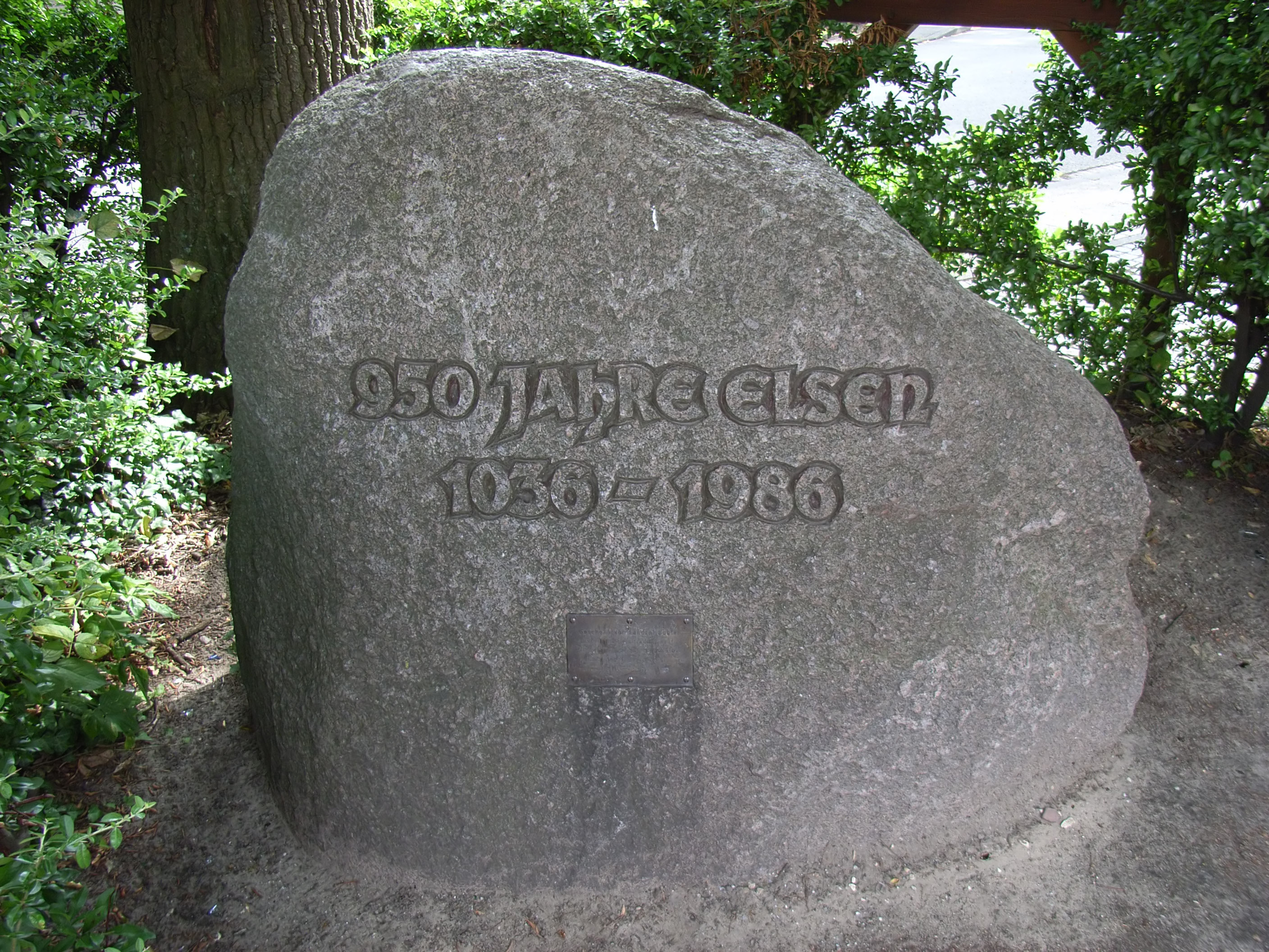 Elsen, Paderborn, Germany: Monument for the 950th existence anniversary of Elsen village (since 1975 a district of Paderborn).